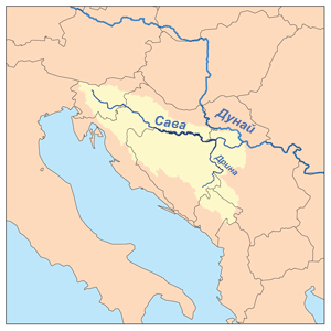 The map of the Sava River basin.